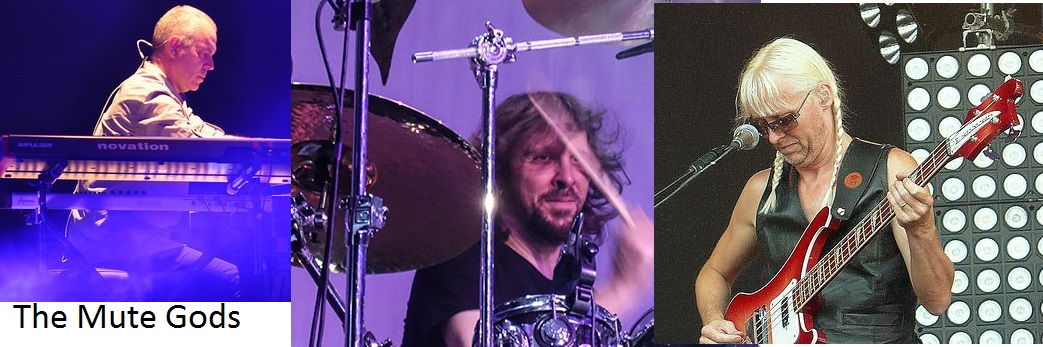 Collage of The Mute Gods from shows with other artists (Steve Hackett, Kajagoogoo and Steven Wilson).